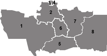 map of the constituencies in Hardap region in Namibia